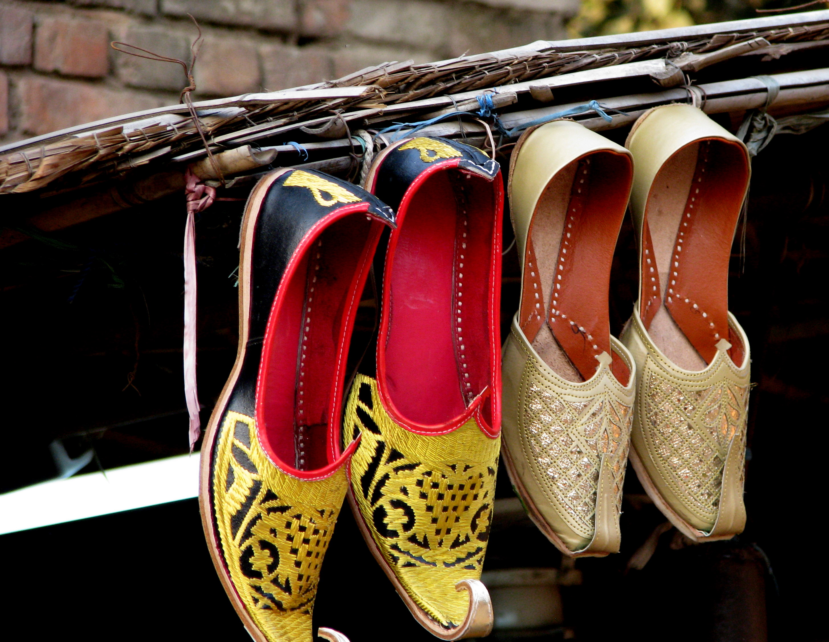 Punjabi jutti at Dilli Haat, Delhi.